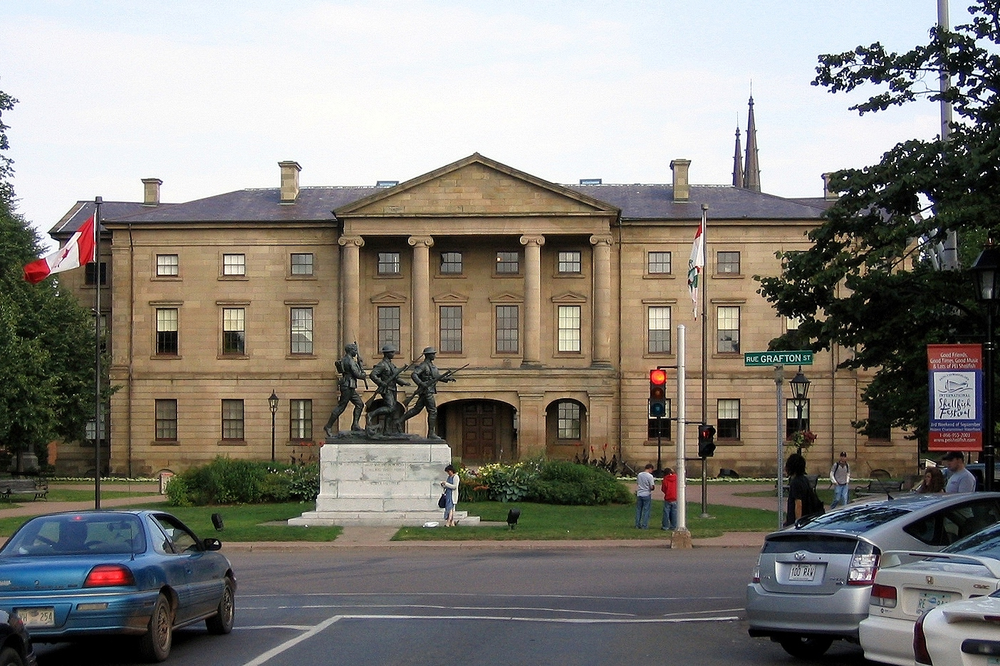 Province House, Charlottetown, Prince Edward Island